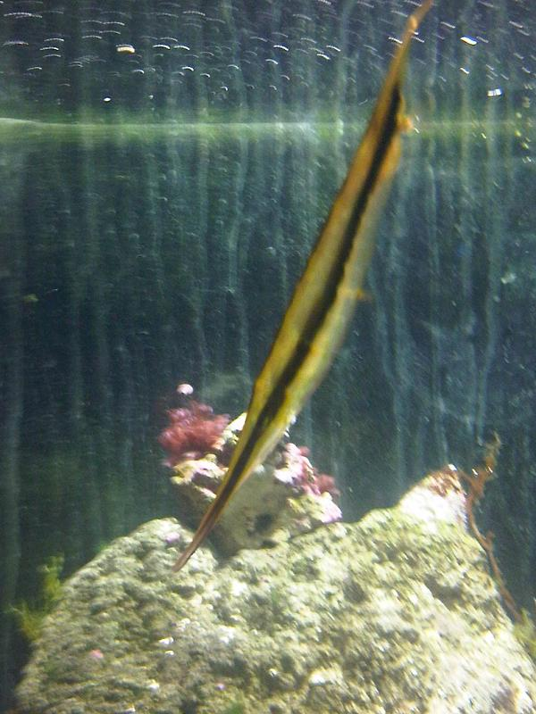 Razorfish (Aeoliscus strigatus) in Kew Gardens, England.